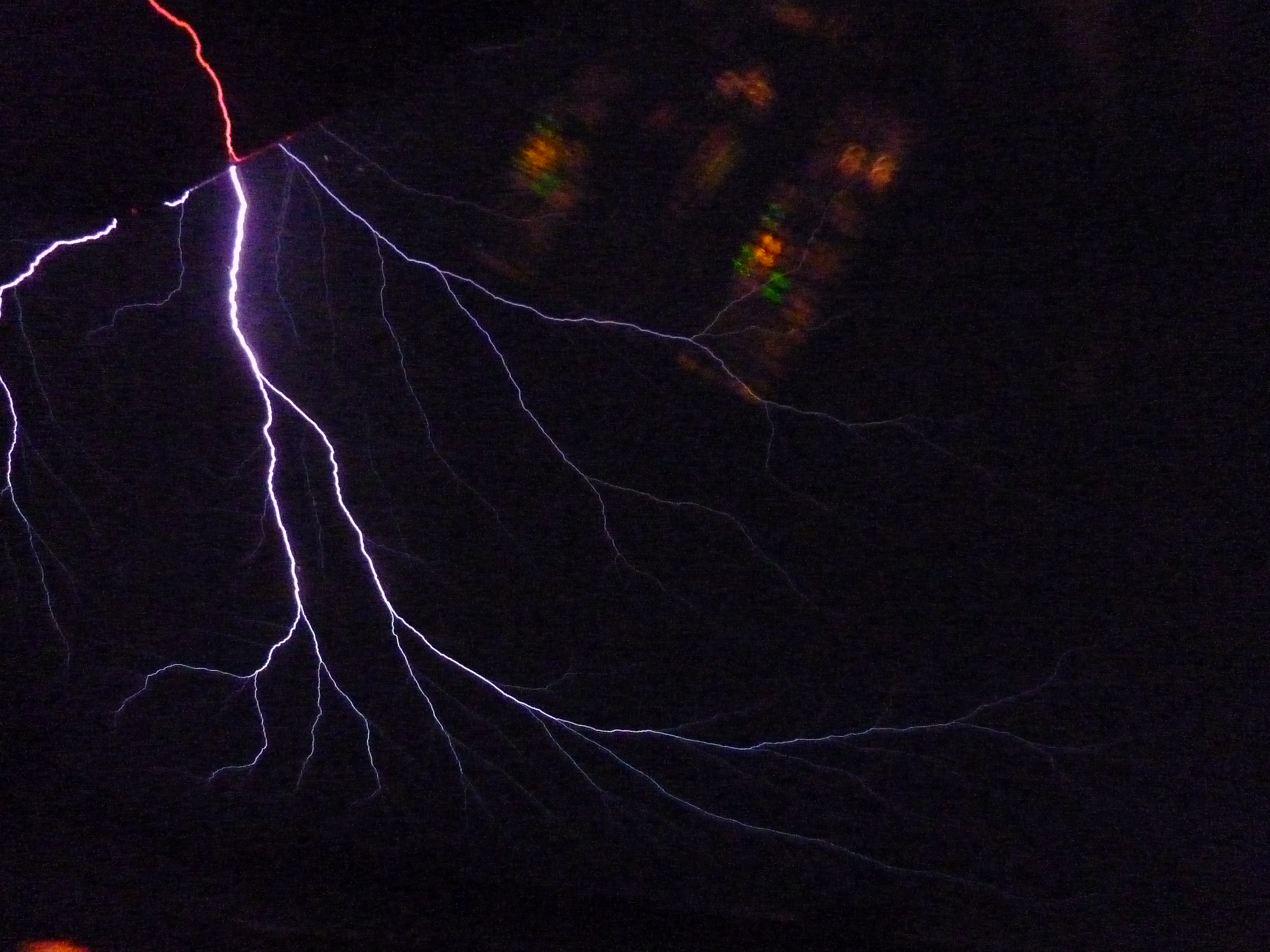 This is a lightning from an elms fire on the front window from an Airbus near Barcelona.